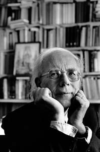 Carl-A. Keller